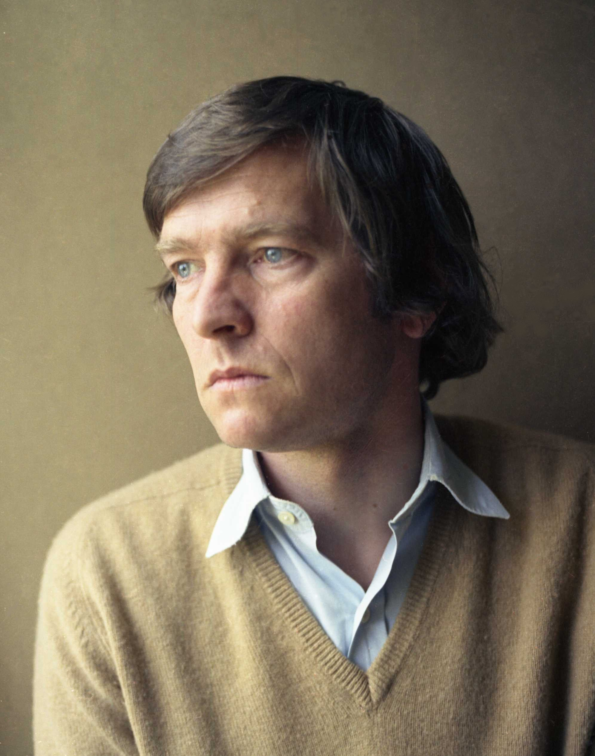 Tom Courtenay at home in London